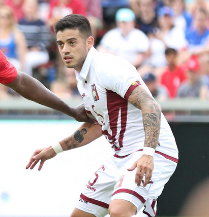 Junior Moreno with Venuzuela NT